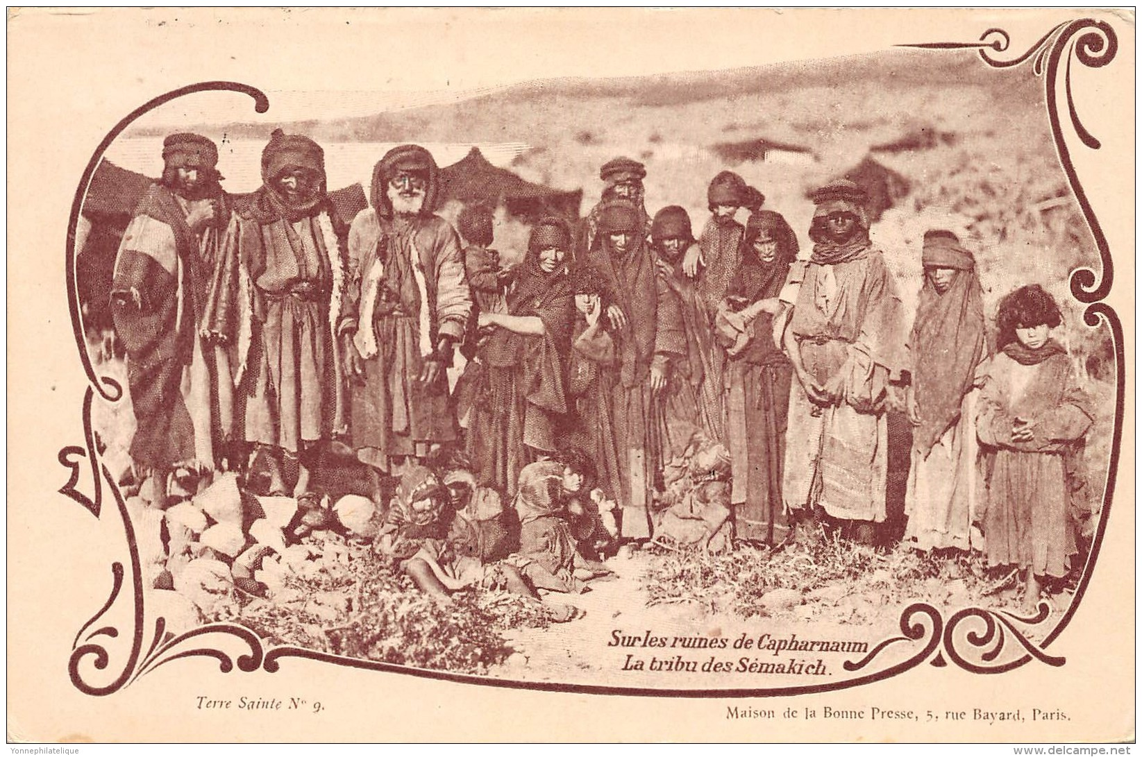 Al-Samakiyya